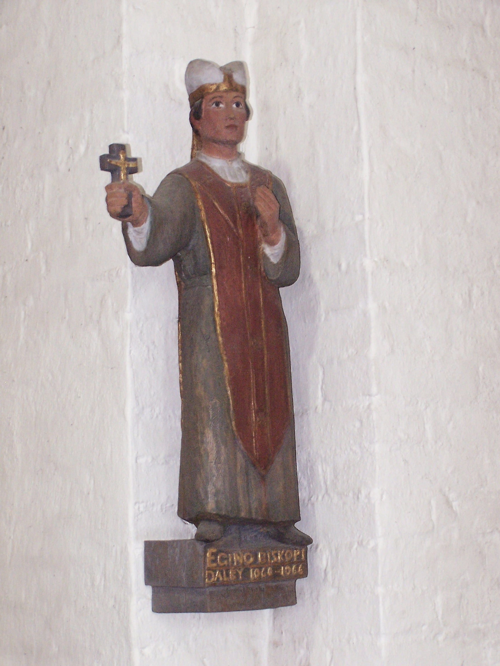 Dalby Heligkorskyrka - Sculpture of bishop Egino.